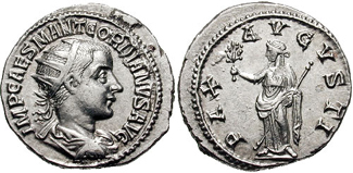 GORDIAN III. 238-244 AD. AR Antoninianus (4.59 gm). Struck 242-244 AD. Antioch mint. IMP CAES M ANT GORDIANVS AVG, radiate, draped and cuirassed bust right; PAX AVGVSTI, Pax standing left, holding branch and sceptre. RIC 189a; RSC 174a. Good VF.